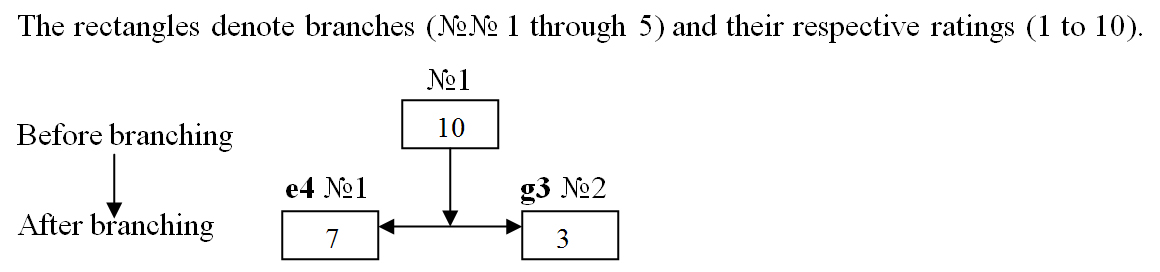 SCHEME 2. Branching in Business chess